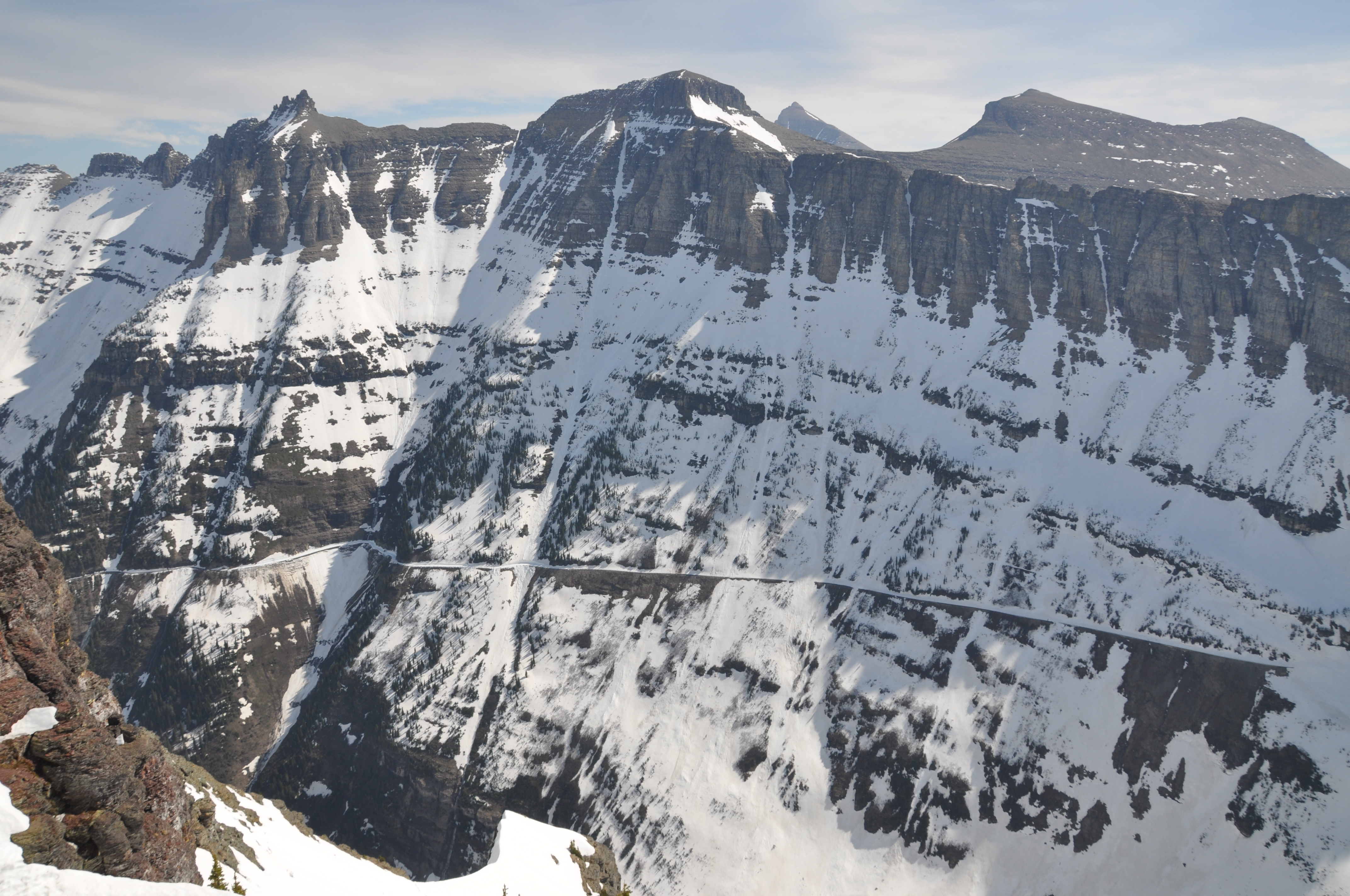 Highline Trail is carved out of the side of the Garden Wall arête, Glacier National Park, Montana, United States.